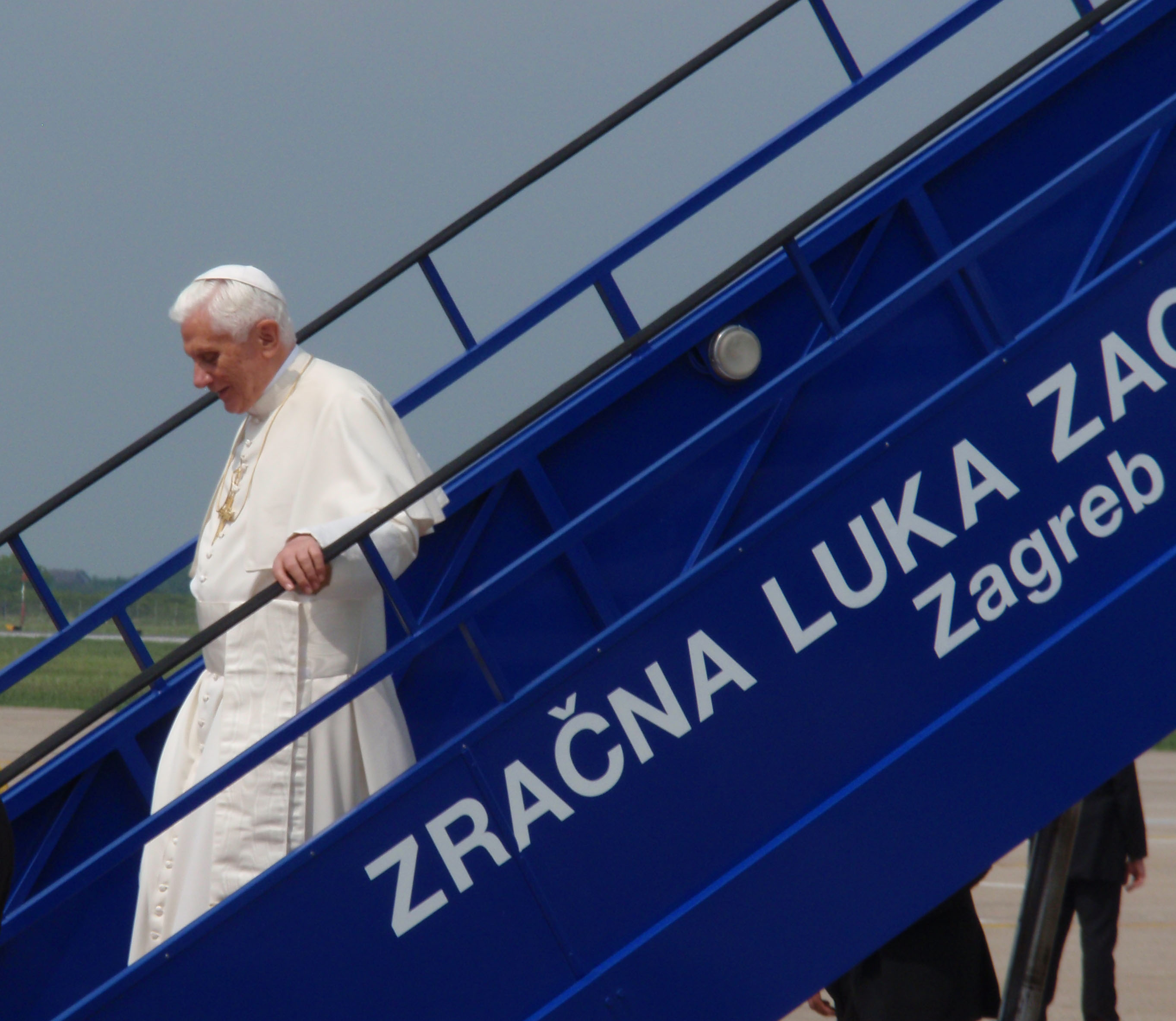 Benedict XVI, first visit to Croatia